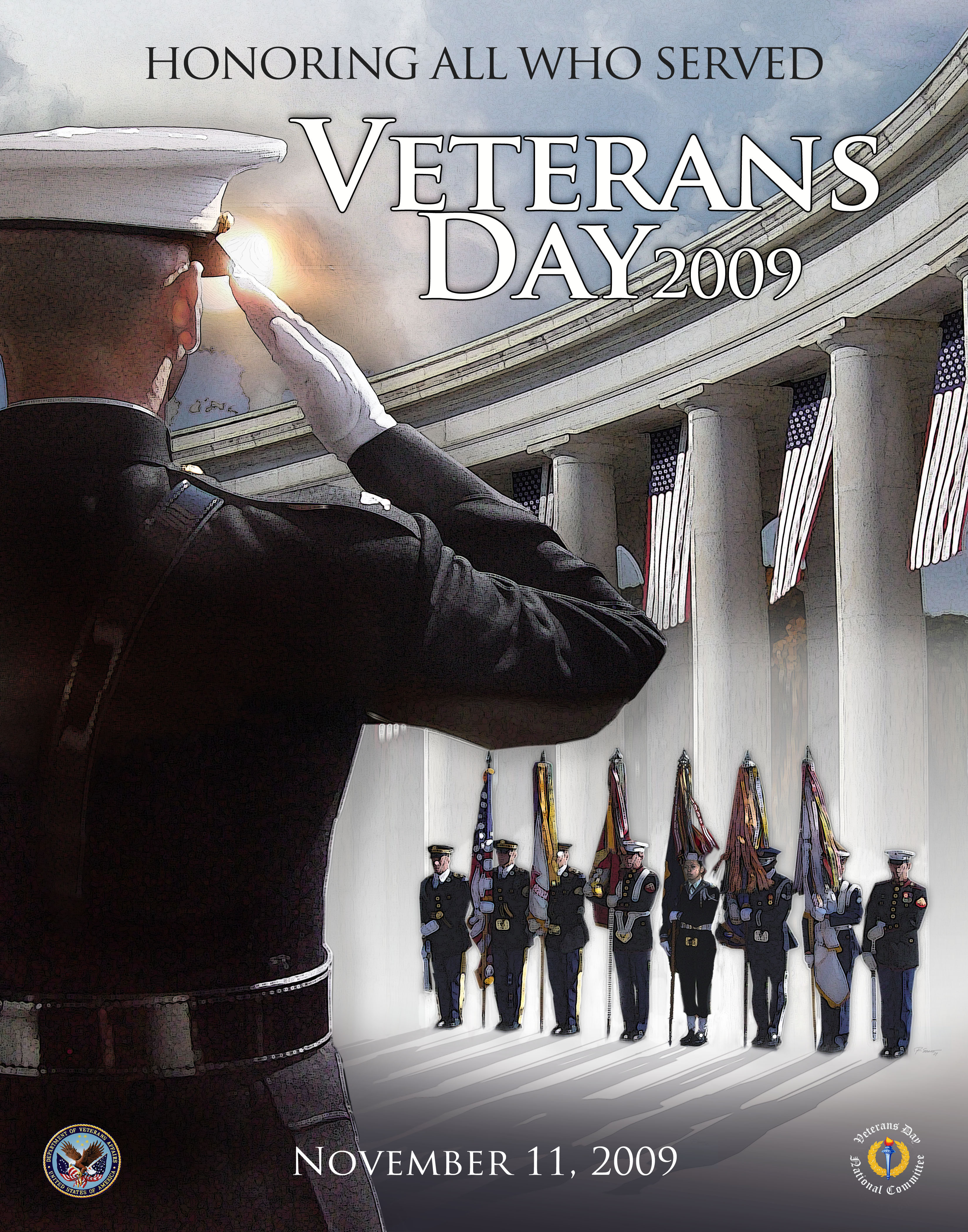 Veterans Day poster issued by the U.S. Department of Veterans Affairs and the Veterans Day National Committee